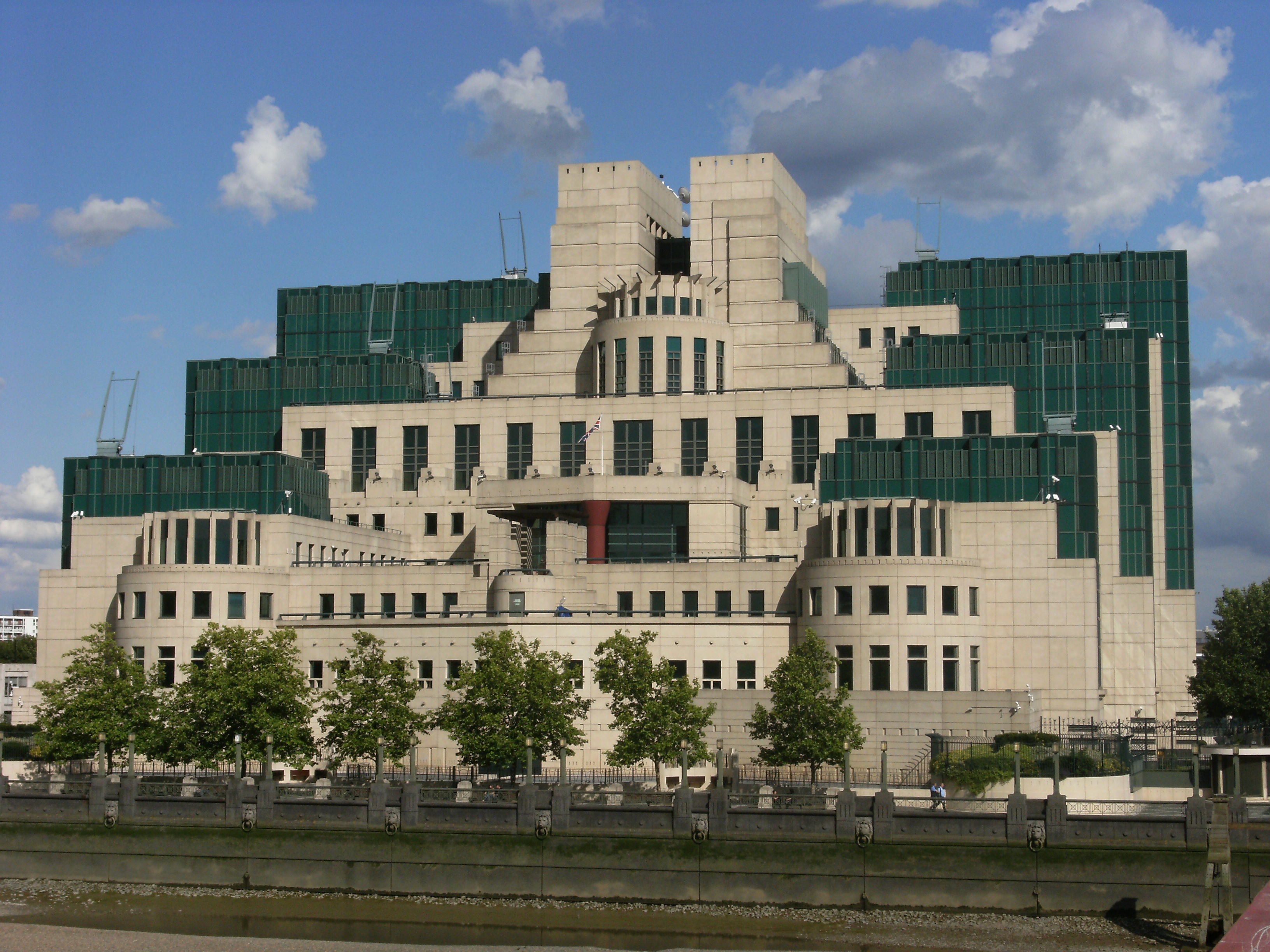 2011-06-04 in London.